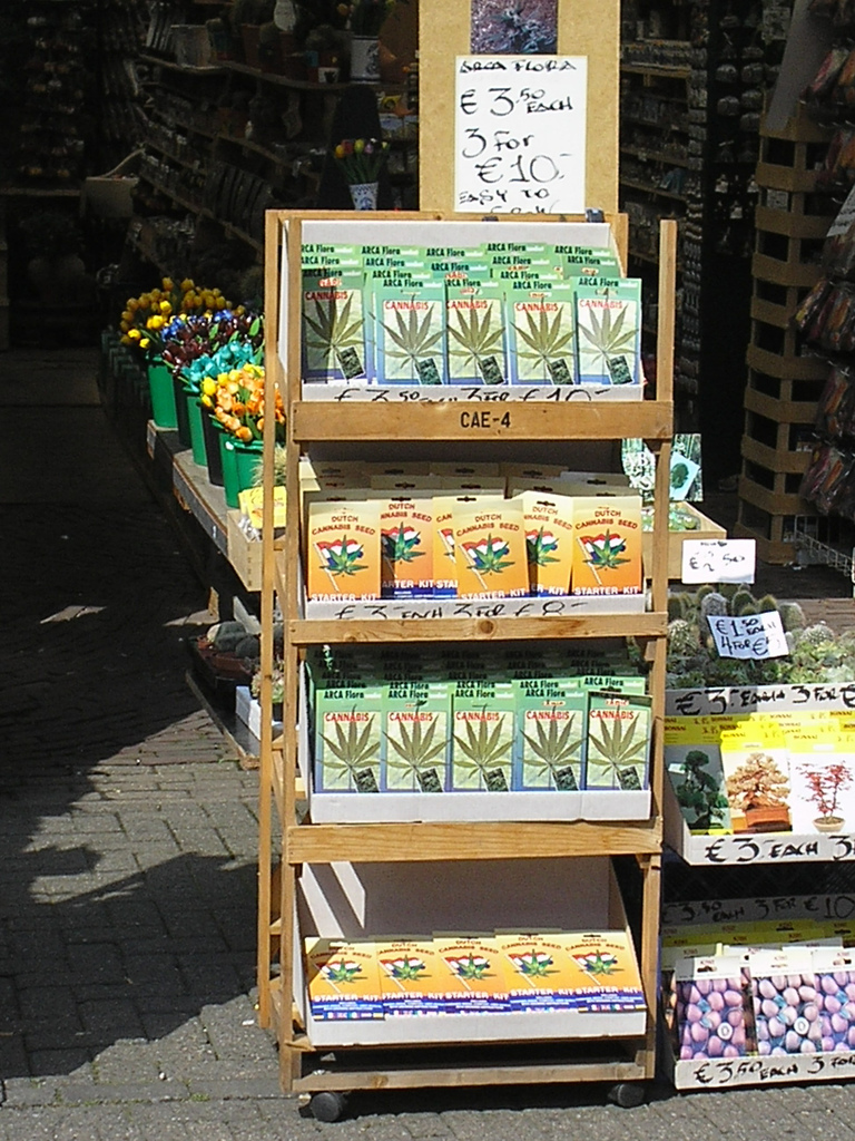 A selection of cannabis growing products in an Amsterdam flower market.